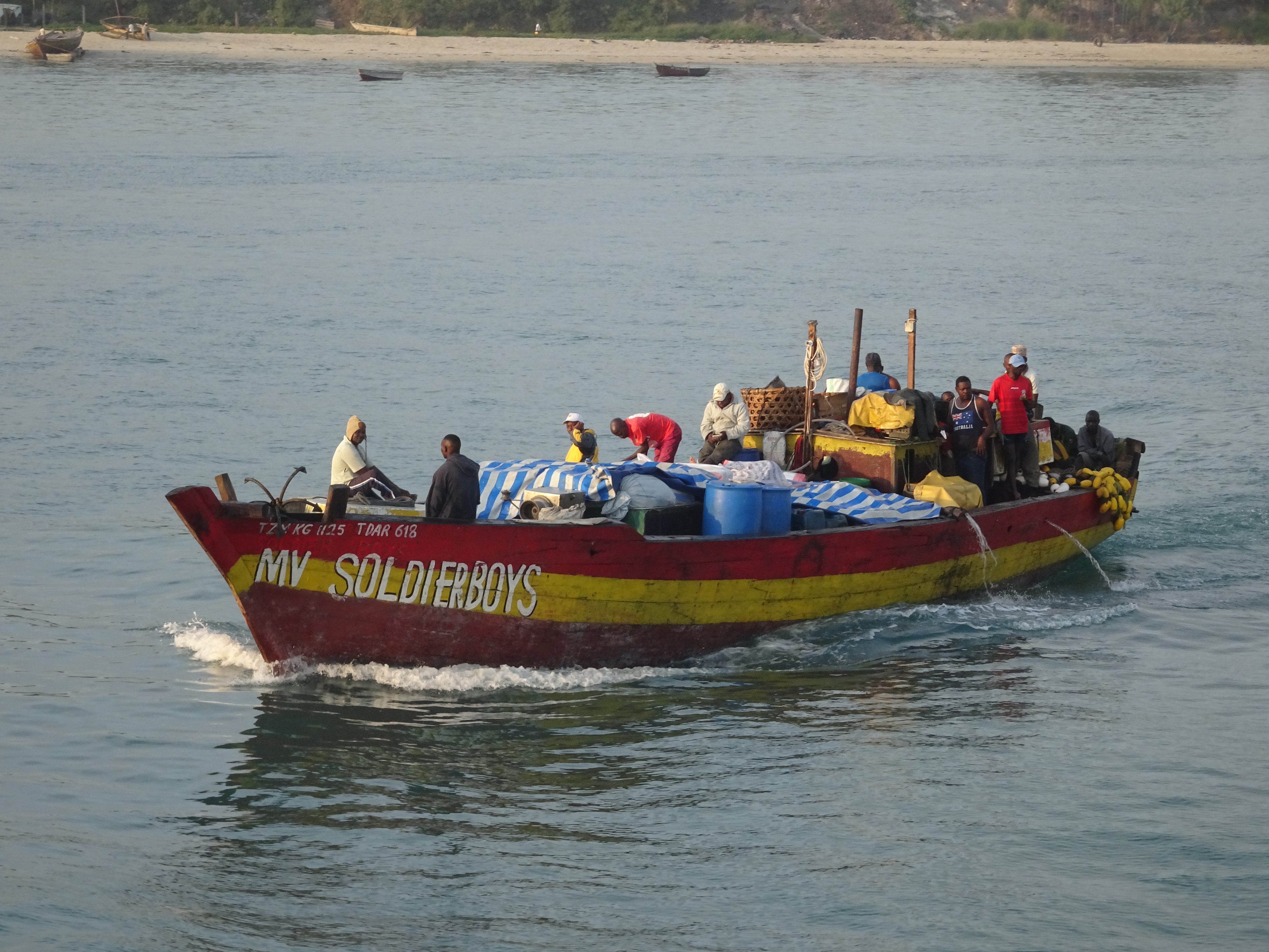 Large wooden fishing boats with fishermen onboard, leaving the fishing port of Dar es Salaam in the early morning for work. This is an image with the theme "Africa on the Move or Transport" from: Tanzania